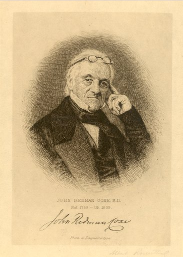 Depicted person: John Redman Coxe – MD